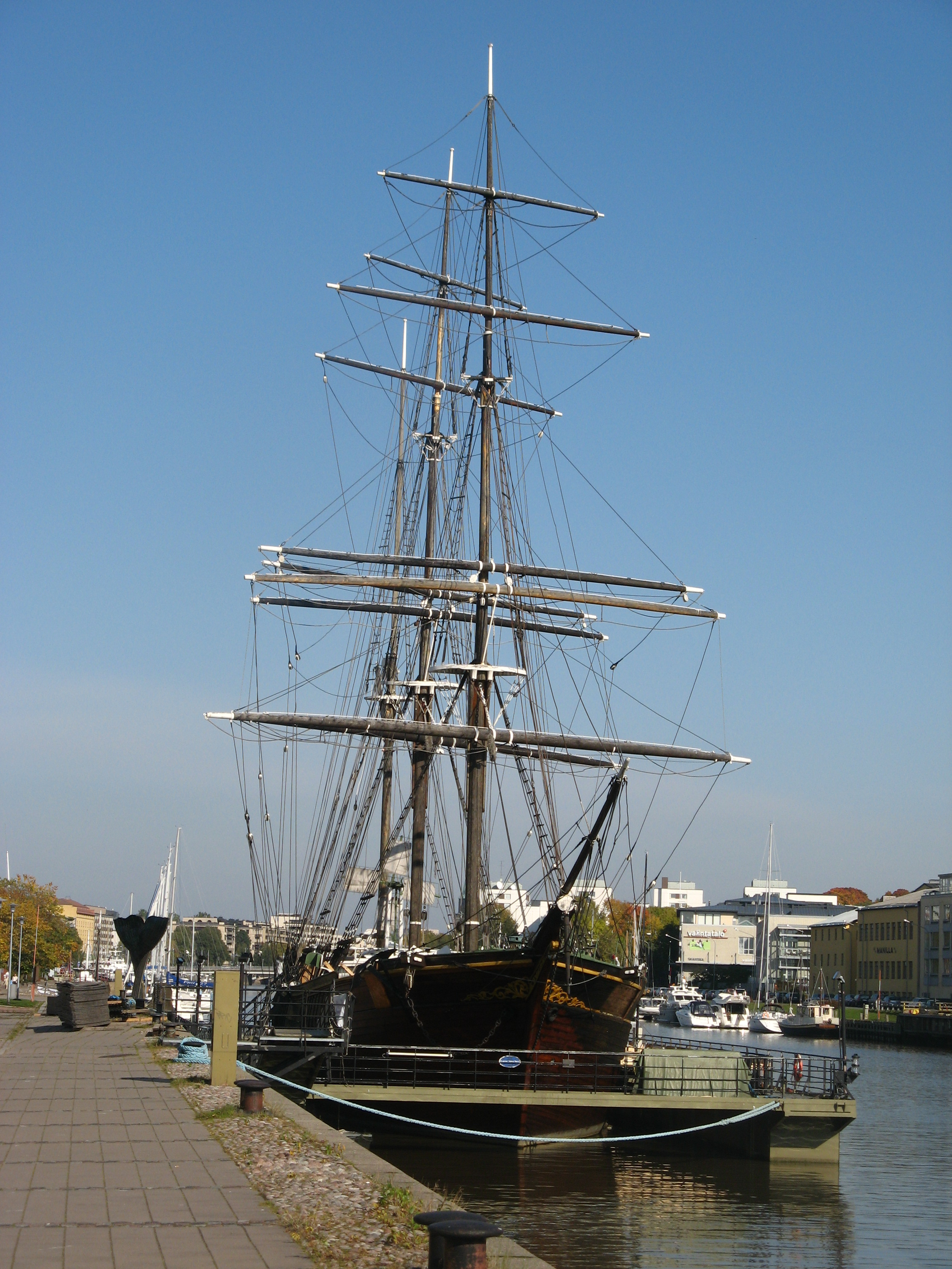 The wooden barque Sigyn in Turku, seen from the front